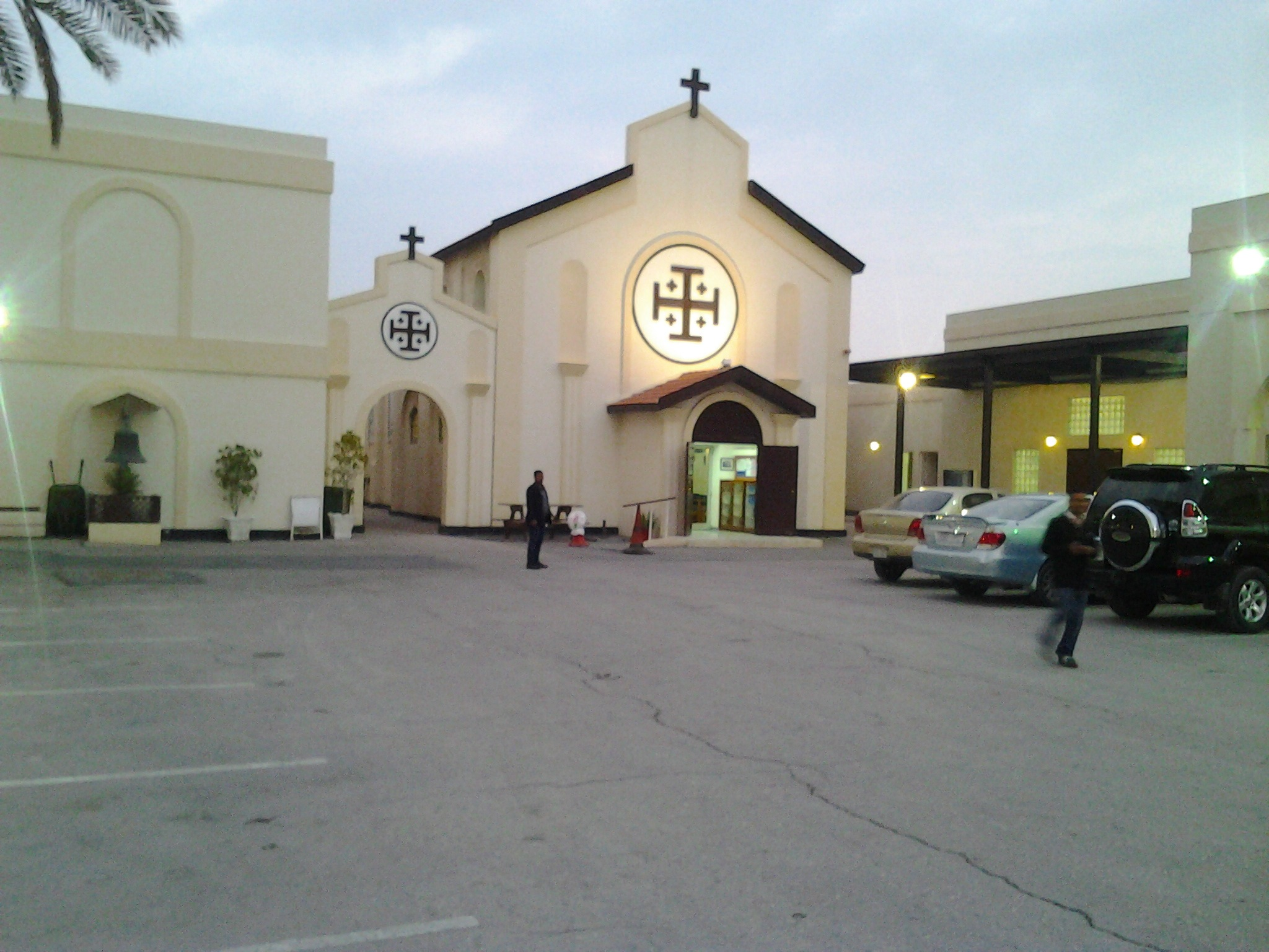 Saint Christopher's Catedral in Manama, Bahrain.